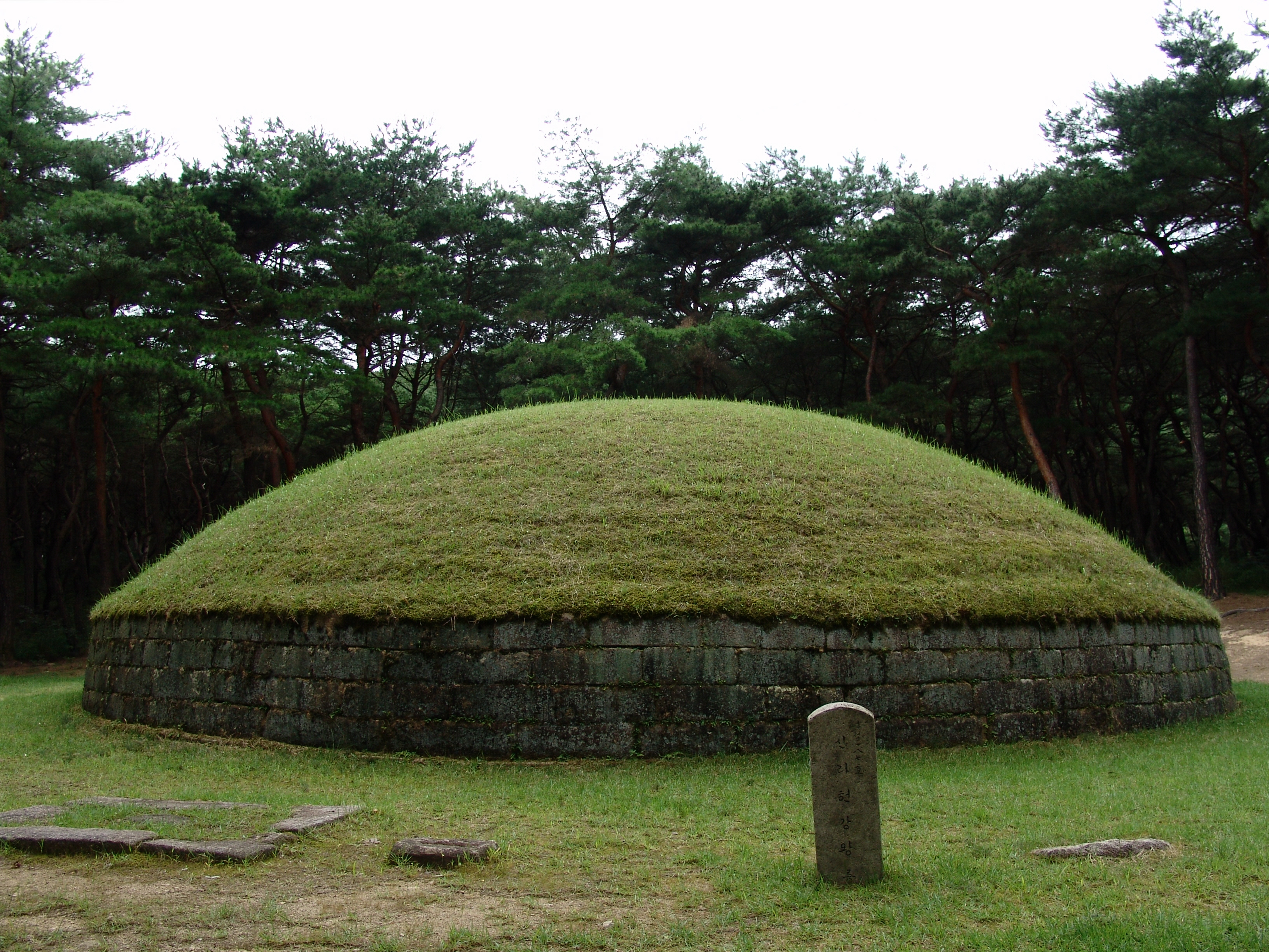 Royal tomb of King Heongang of Silla located in Gyeongju, North Gyeongsang, South Korea